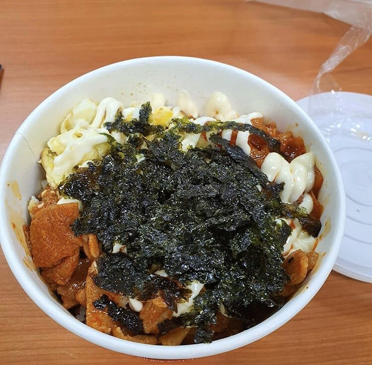 cup bop